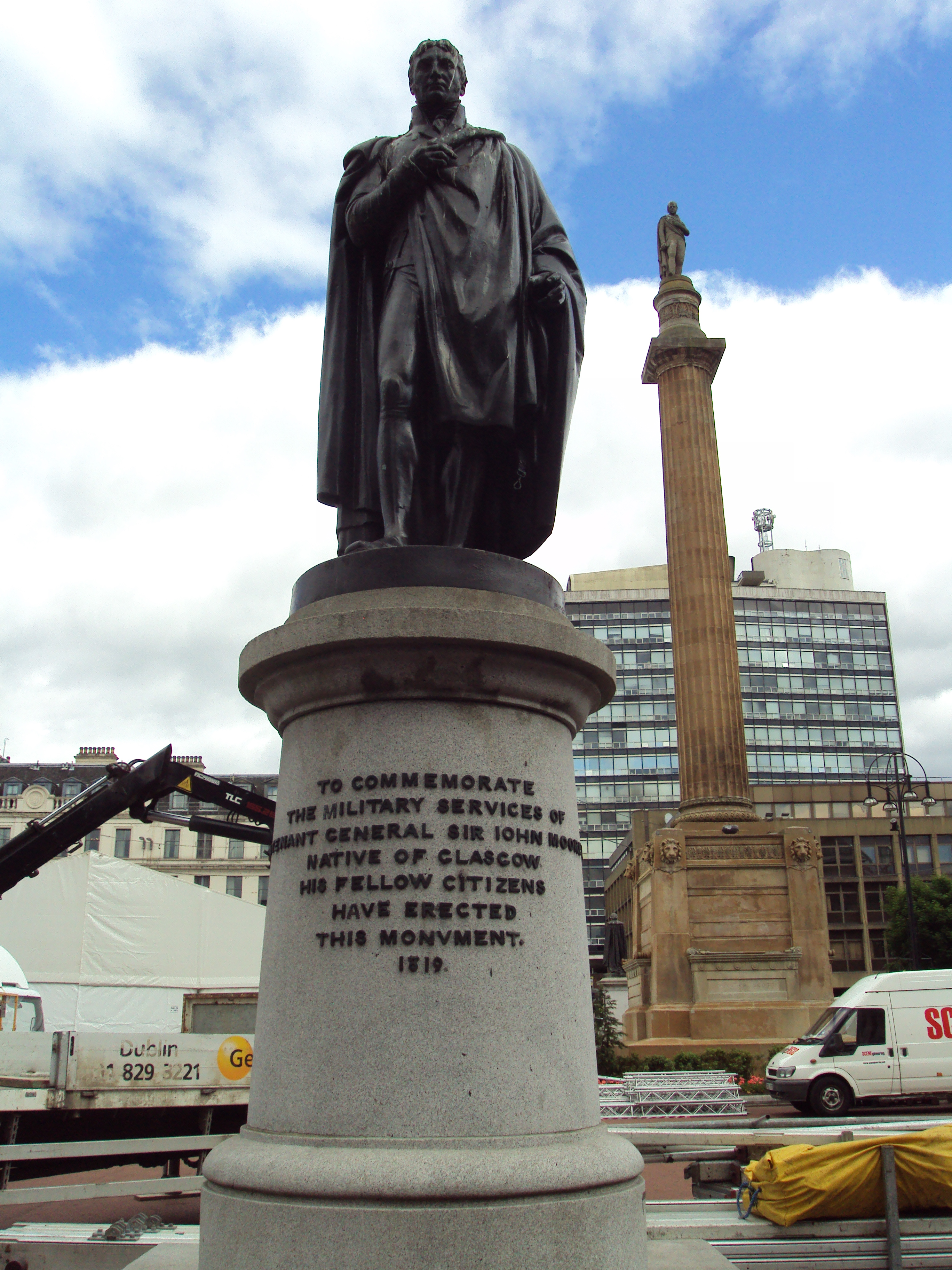 Statue of Lieutenant-General Sir John Moore, George Square, Glasgow, Scotland with Scott monument in the background